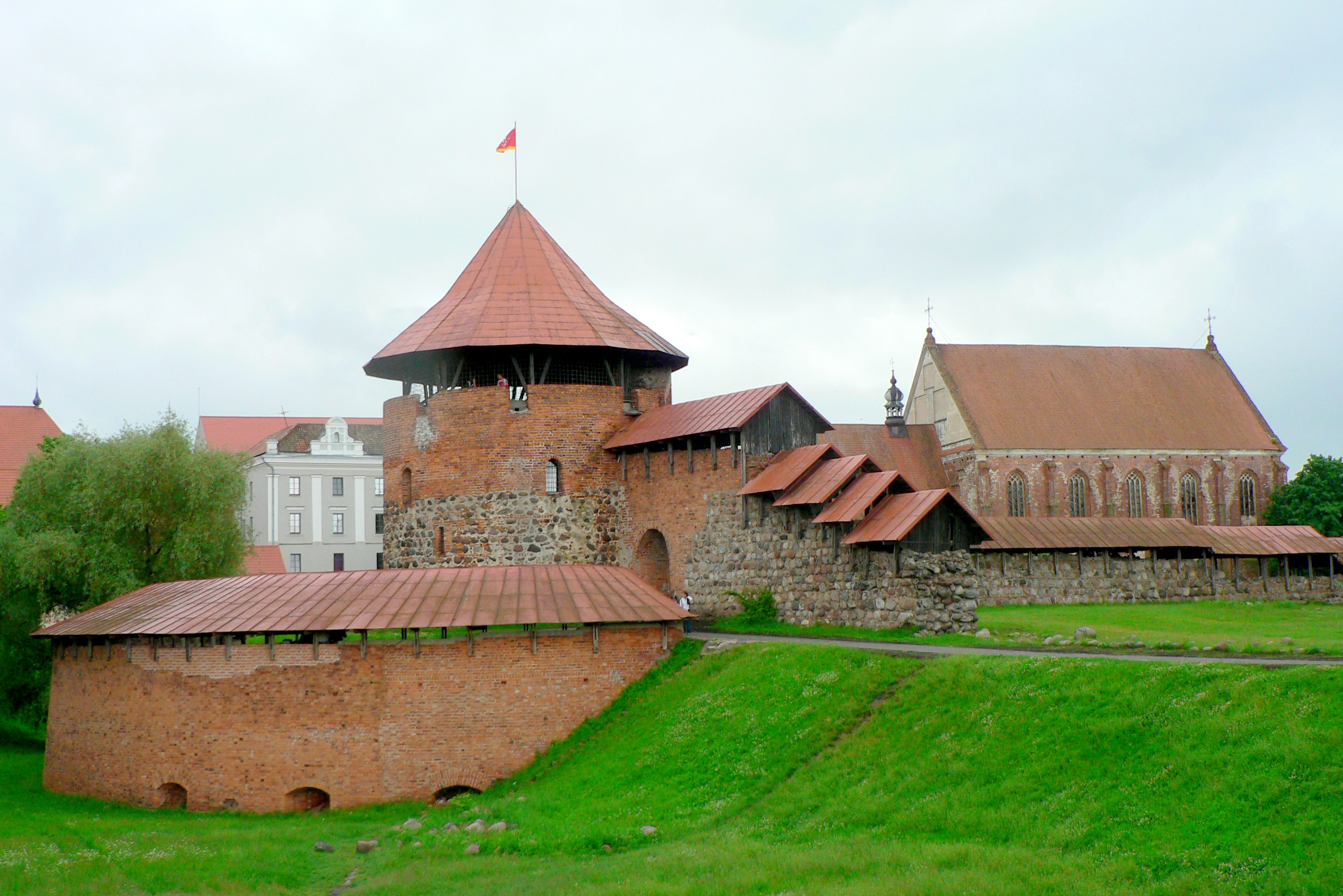 Kaunas castle, Lithuania.